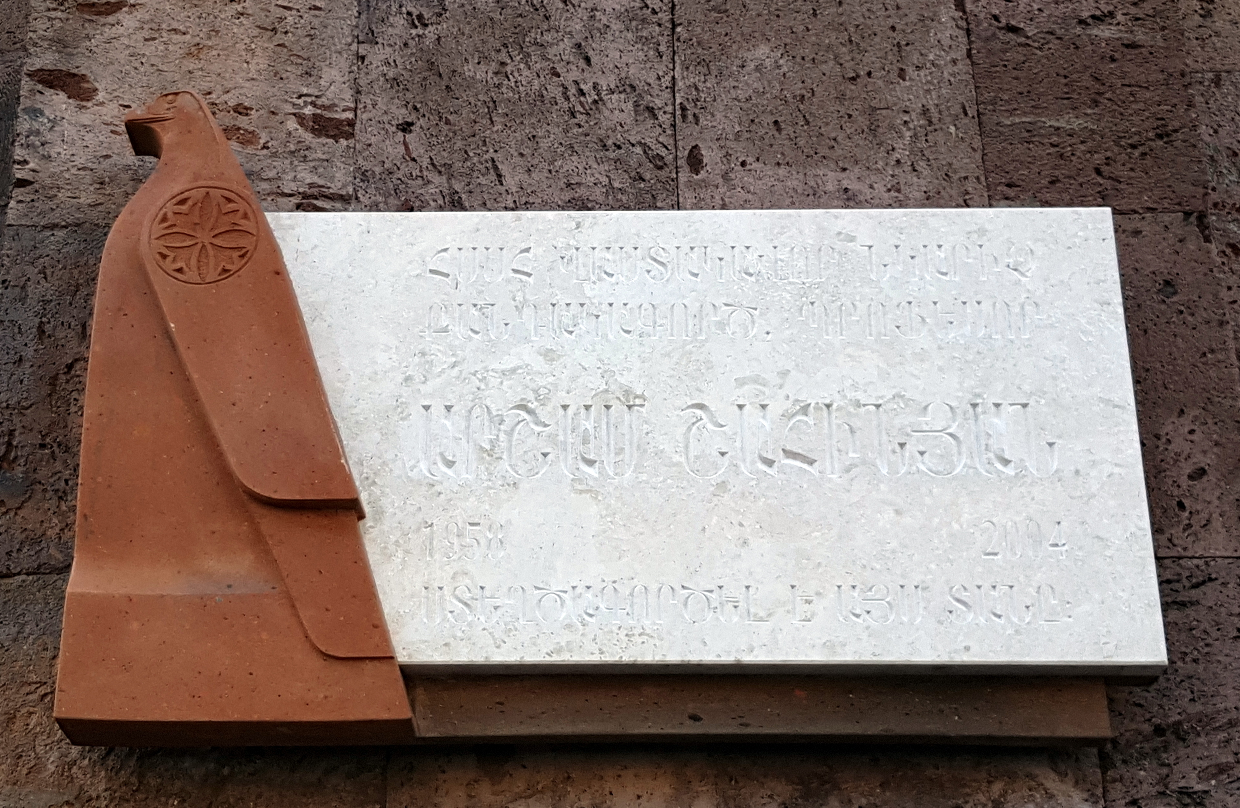 Arsham Shahinyan's Plaque